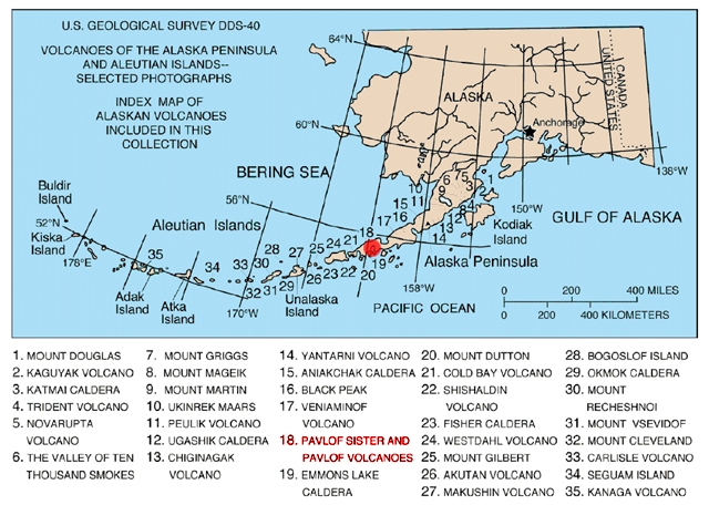 Map of Alaska volcanoes, Mount Pavlof, Alaska